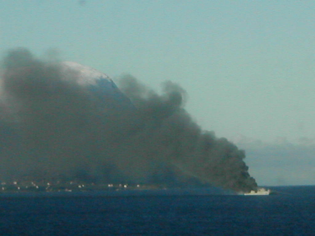 KNM Orkla burning outside Ålesund, Norway in November 2002.